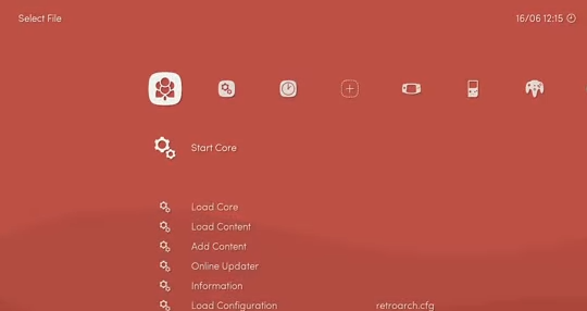 Lakka's menu